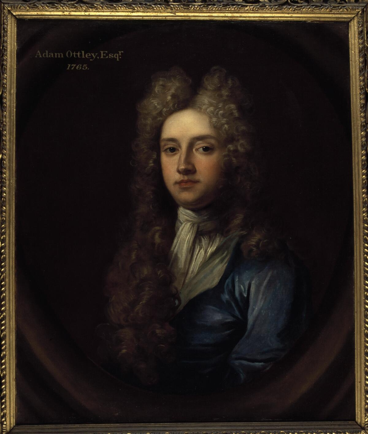 A painting from the Framed Works of Art collection at the National Library of wales.